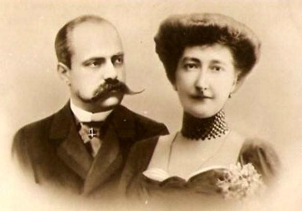 Napoléon Victor Bonaparte and his wife Clémentine of Belgium